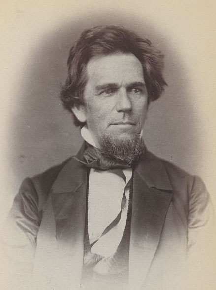 Warner L. Underwood, Representative from Kentucky, Thirty-fifth Congress, half-length portrait